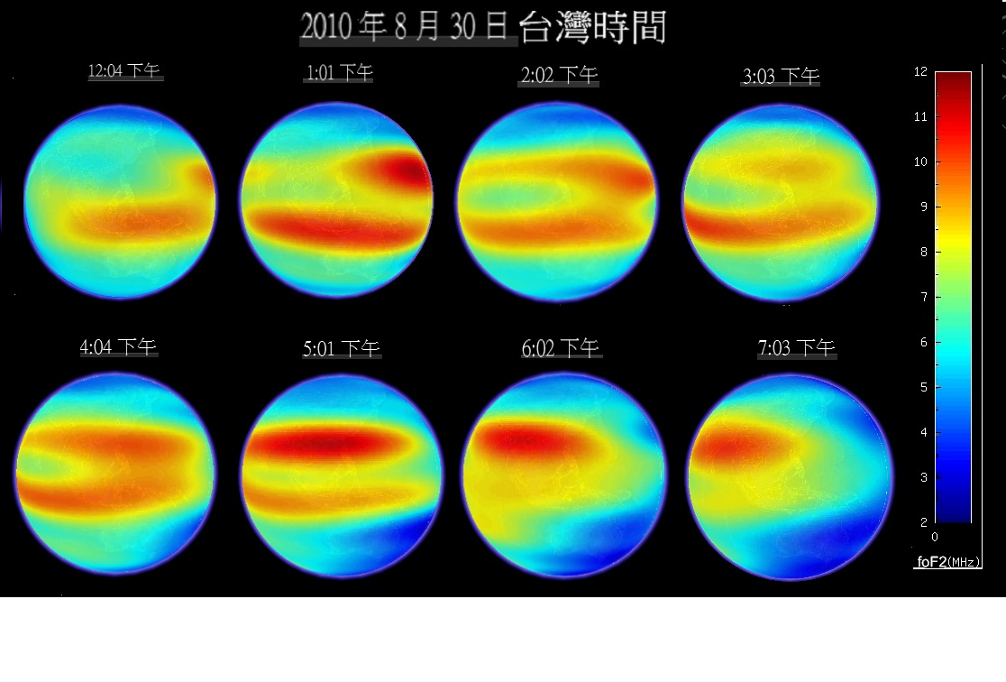 The TaiWan Ionospheric Model shows the global ionospheric electron density with time